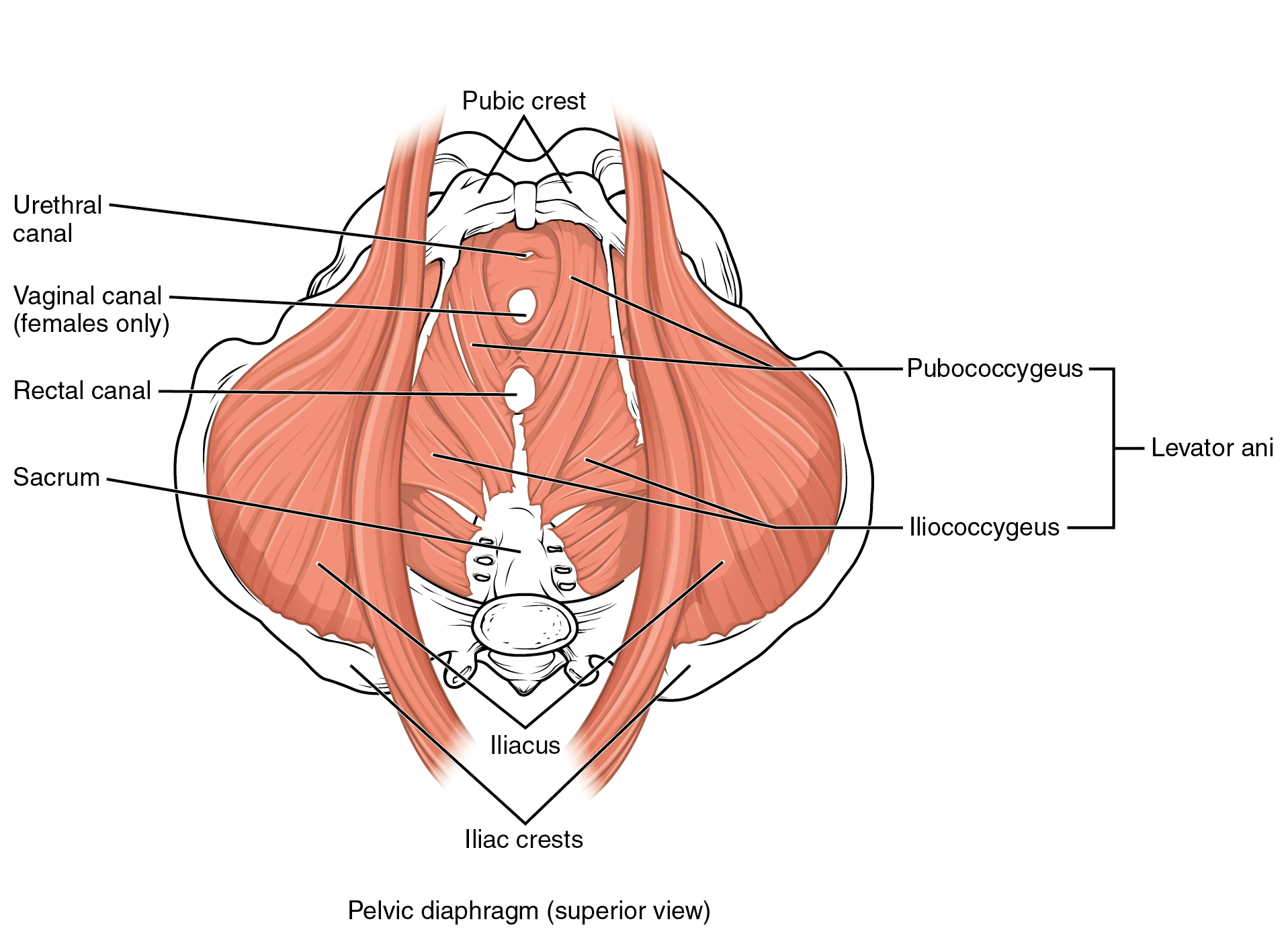 Version 8.25 from the Textbook OpenStax Anatomy and Physiology Published May 18, 2016